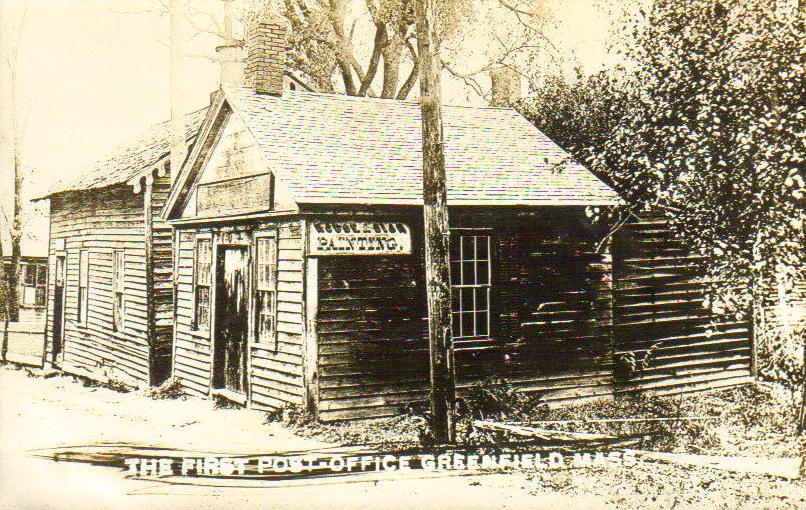 The first post office in Greenfield; from a c. 1910 postcard.